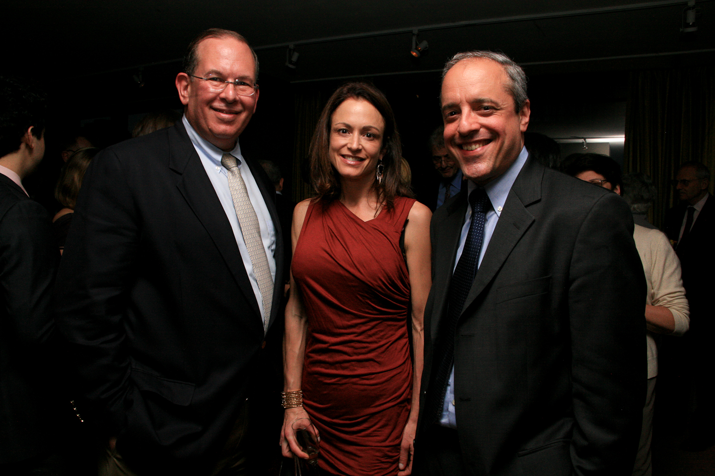 Daniel Alpert (Westwood Capital), Jennifer Warren and Gary Silverman (Financial Times)